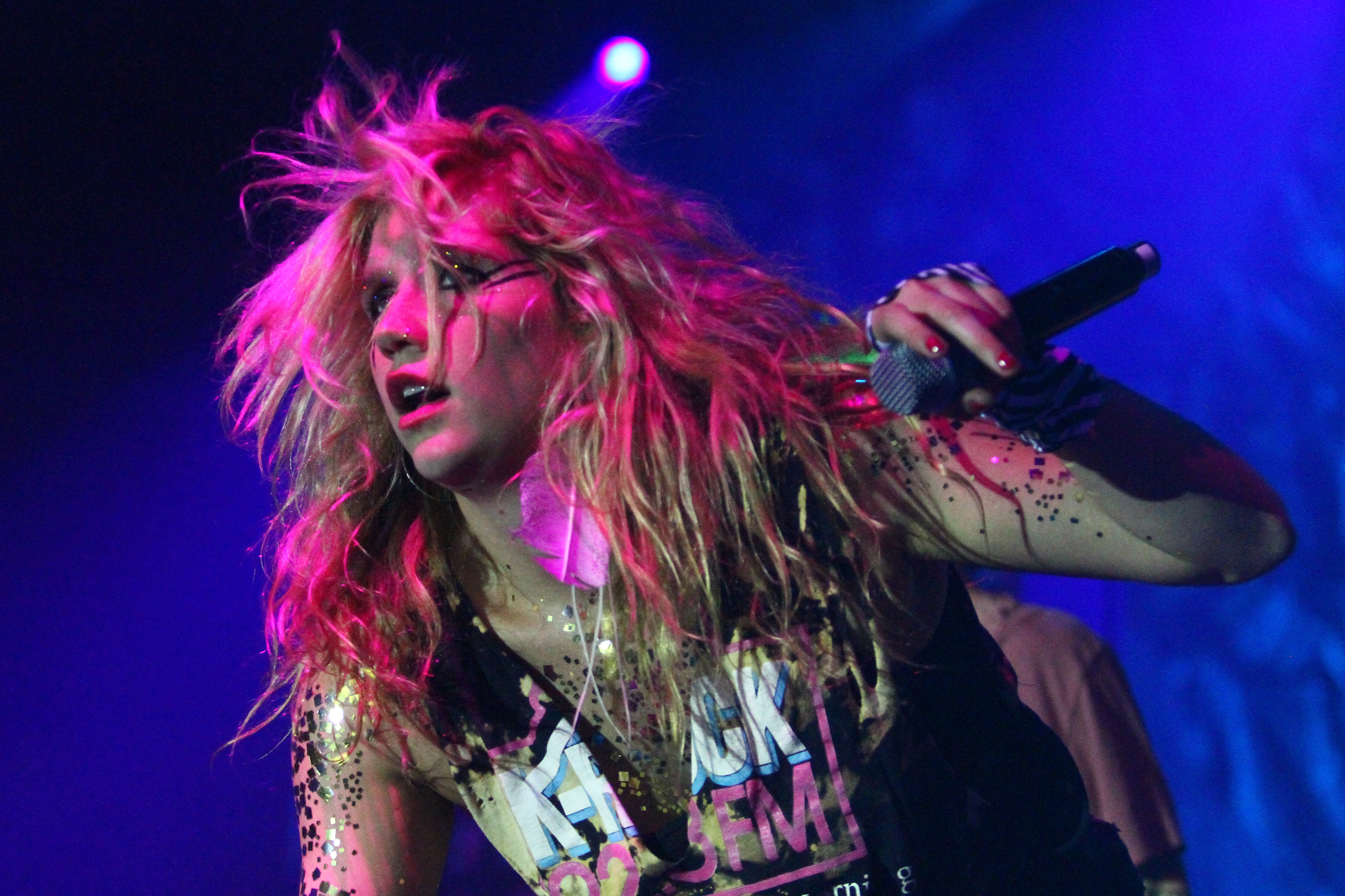 Ke$ha performing at Dartmouth College